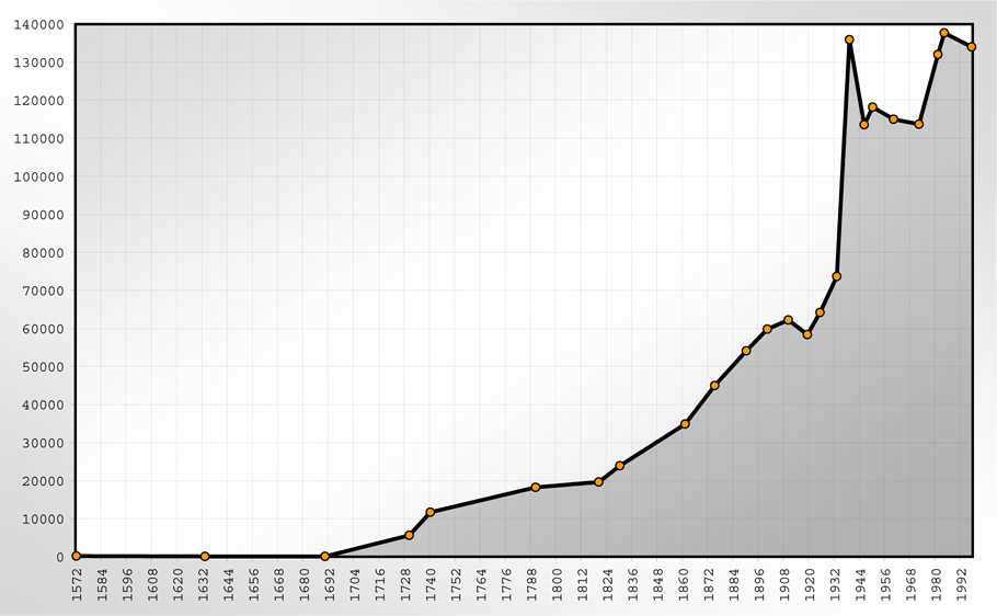 This image shows the population statistics of Potsdam (Germany).